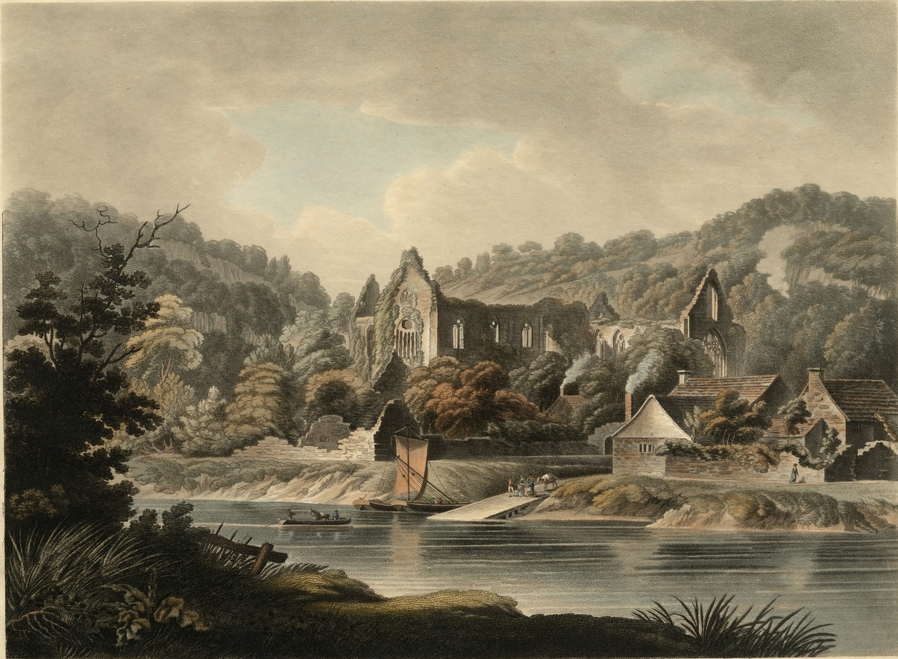 A print of the River Wye landing at Tintern by Edward Dayes, 1799; Whitworth Art Gallery